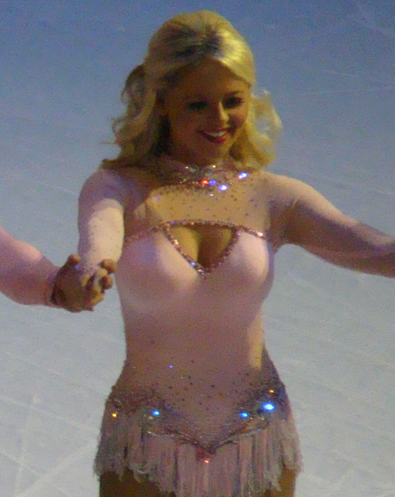 Emily Atack on the 2010 Dancing on Ice tour in Manchester.